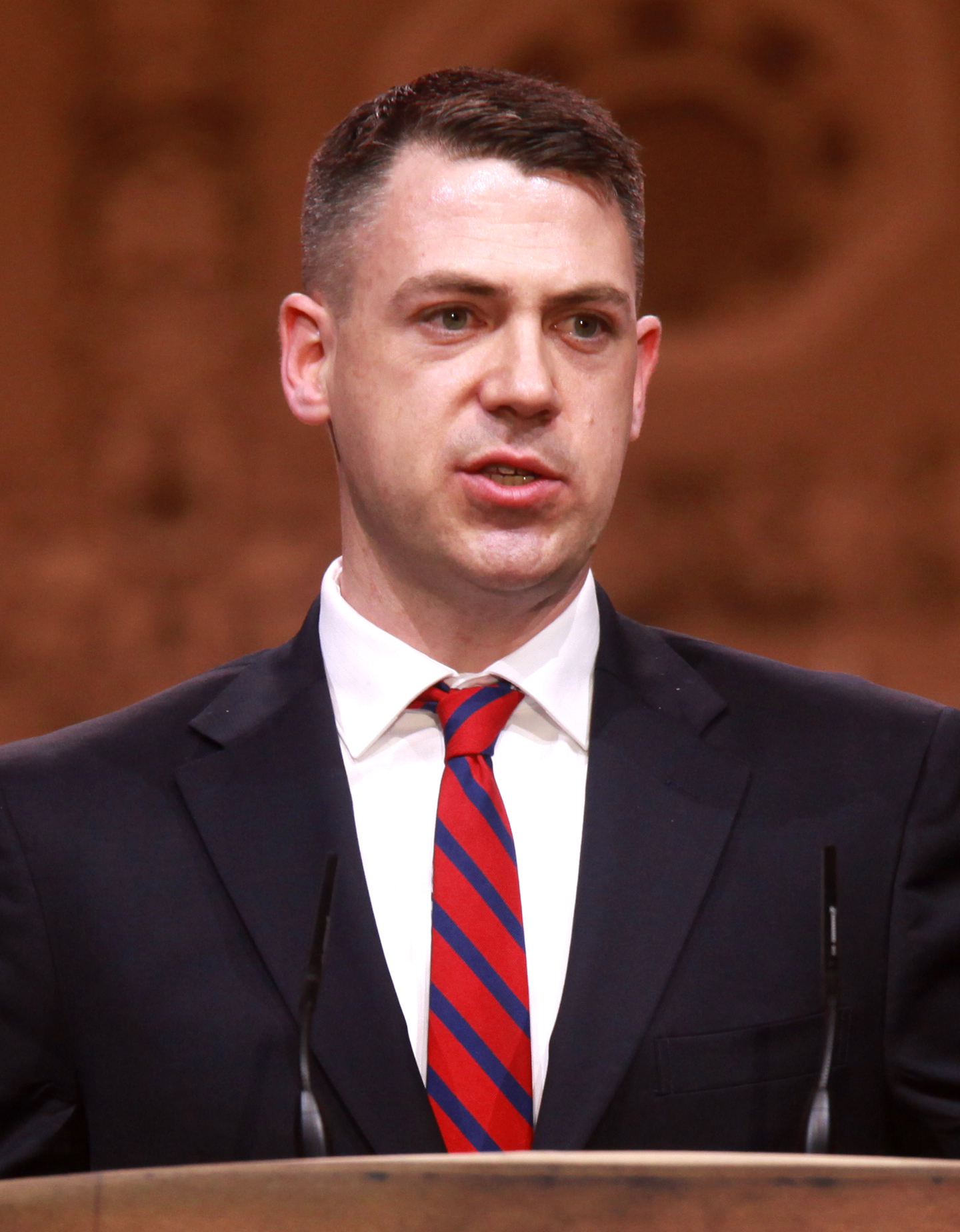 Jim Banks speaking at the 2014 CPAC in Washington, D.C.